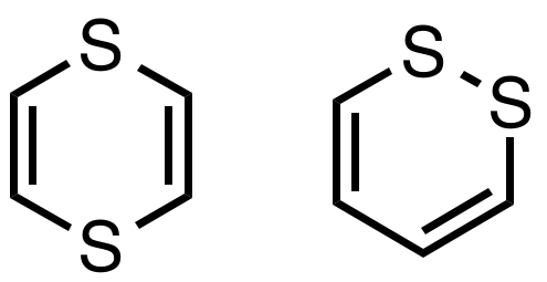 structures of two isomeric parent dithiins